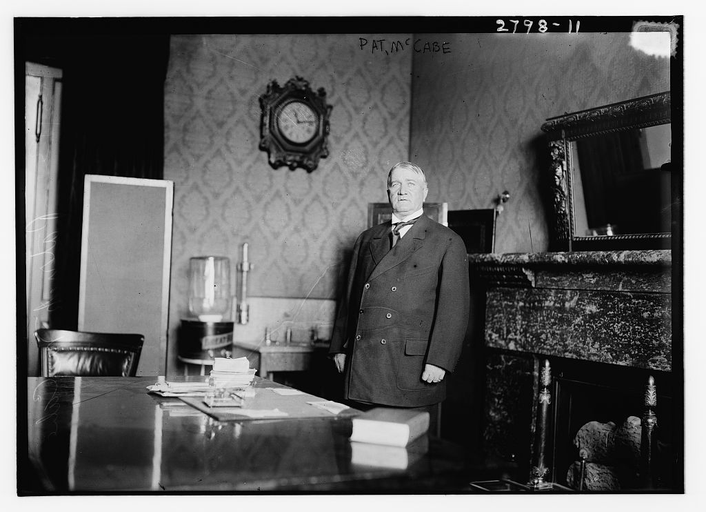 Bain News Service,, publisher. Patrick E. McCabe [between ca. 1910 and ca. 1915] 1 negative : glass ; 5 x 7 in. or smaller. Notes: Title from unverified data provided by the Bain News Service on the negatives or caption cards. Forms part of: George Grantham Bain Collection (Library of Congress). Format: Glass negatives. Repository: Library of Congress, Prints and Photographs Division, Washington, D.C. 20540 USA, General information about the Bain Collection is available at Persistent URL: Call Number: LC-B2- 2798-11